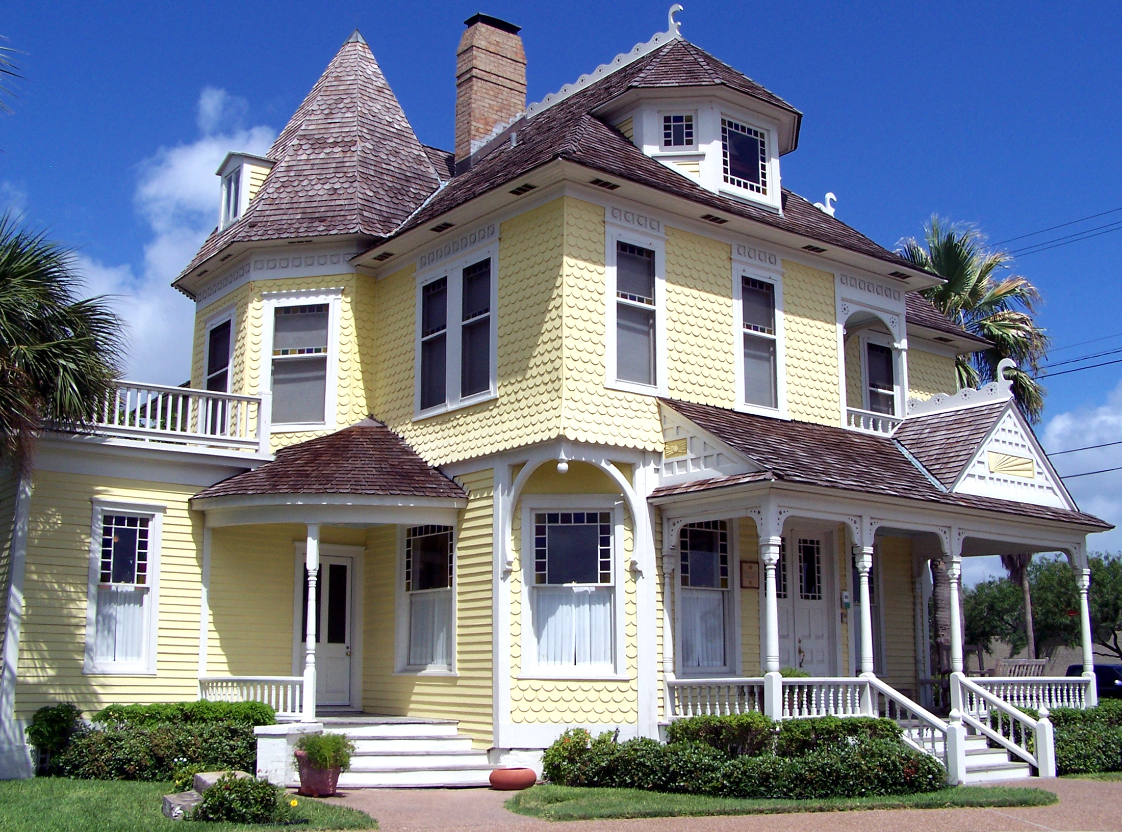 The Hoopes-Smith House located at 417 N. Broadway, Rockport, Texas, United States and is currently used as a bed and breakfast. The Queen Anne style house was designated a Recorded Texas Historic Landmark in 1989 and listed on the National Register of Historic Places on August 19, 1994.